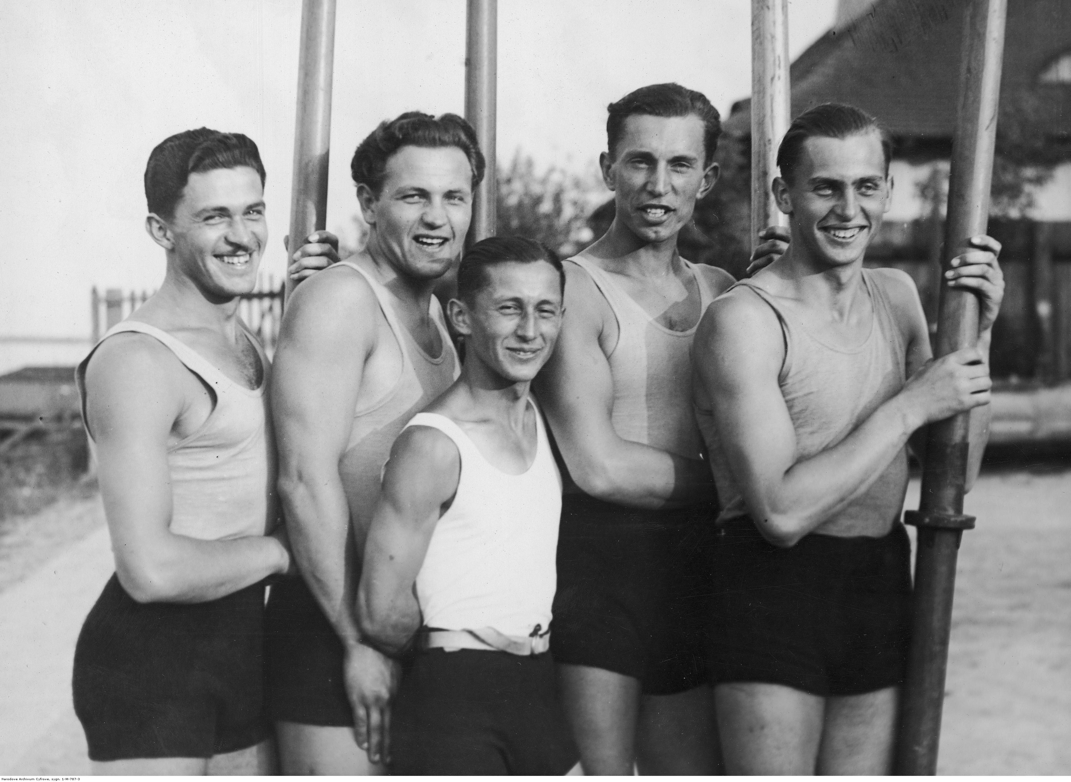 Summer Olympics in Los Angeles. Polish national team in rowing - winner of the bronze medal of competition: Men's coxed four. From left: Edward Kobyliński, Stanisław Urban, Jerzy Skolimowski (cox), Janusz Ślązak, and Jerzy Braun.